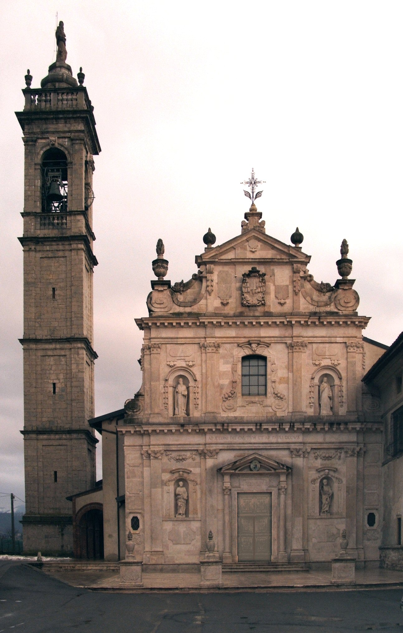 San Paolo d'Argon (Bergamo), Lombardy, Italy - Saint Paul church (17th century)